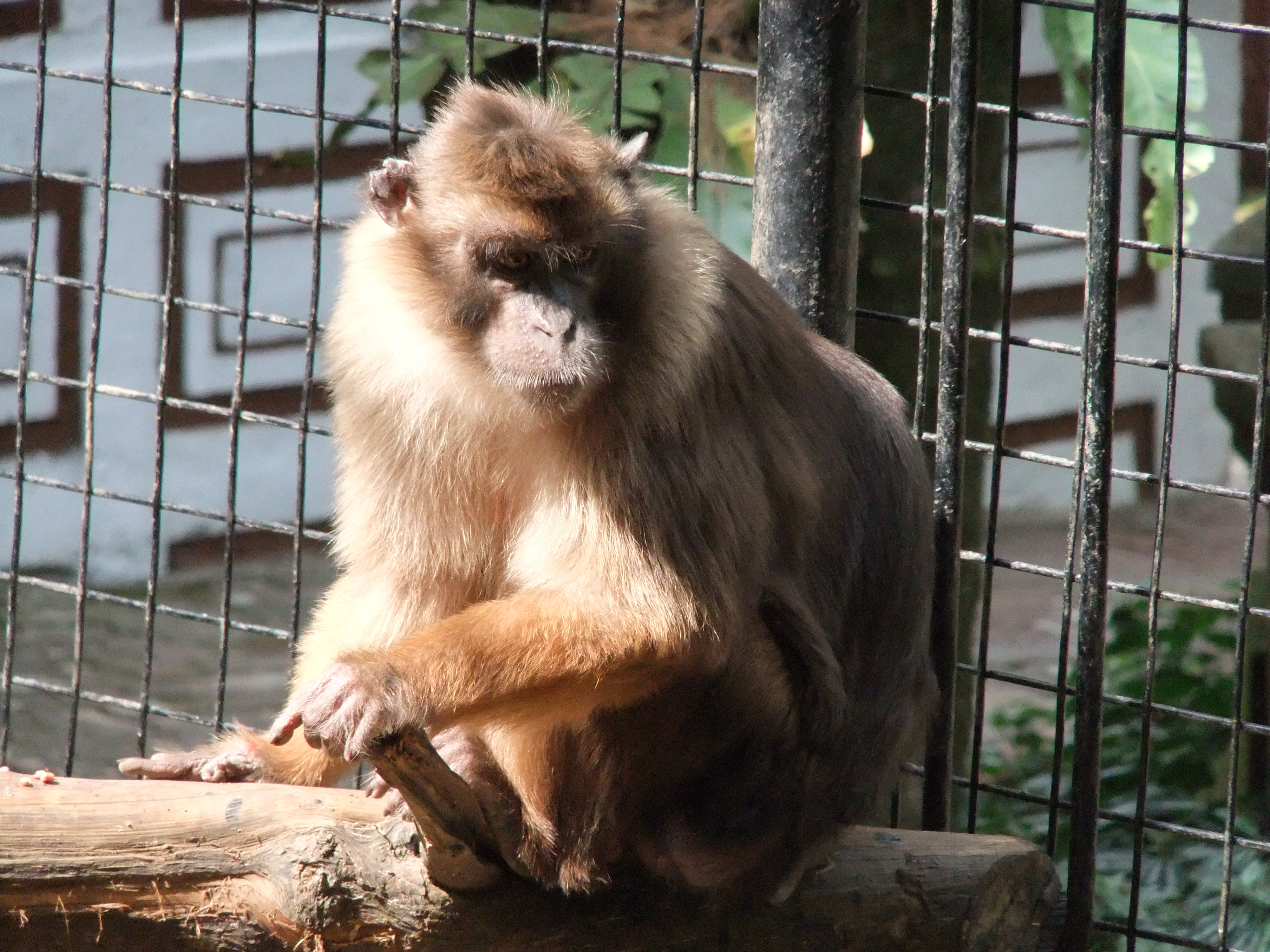 Pagai Island Macaque (Macaca pagensis), Safari Park, Cisarua, West Java, Indonesia